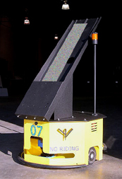 The ADAM intelligent AGV with Motivity autonomy carries goods from anywhere to anywhere, avoiding people and obstacles along the way, without expensive building adaptations.